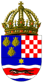 Coat of Arms of the Triune Kingdom of Croatia, Dalmatia and Slavonia